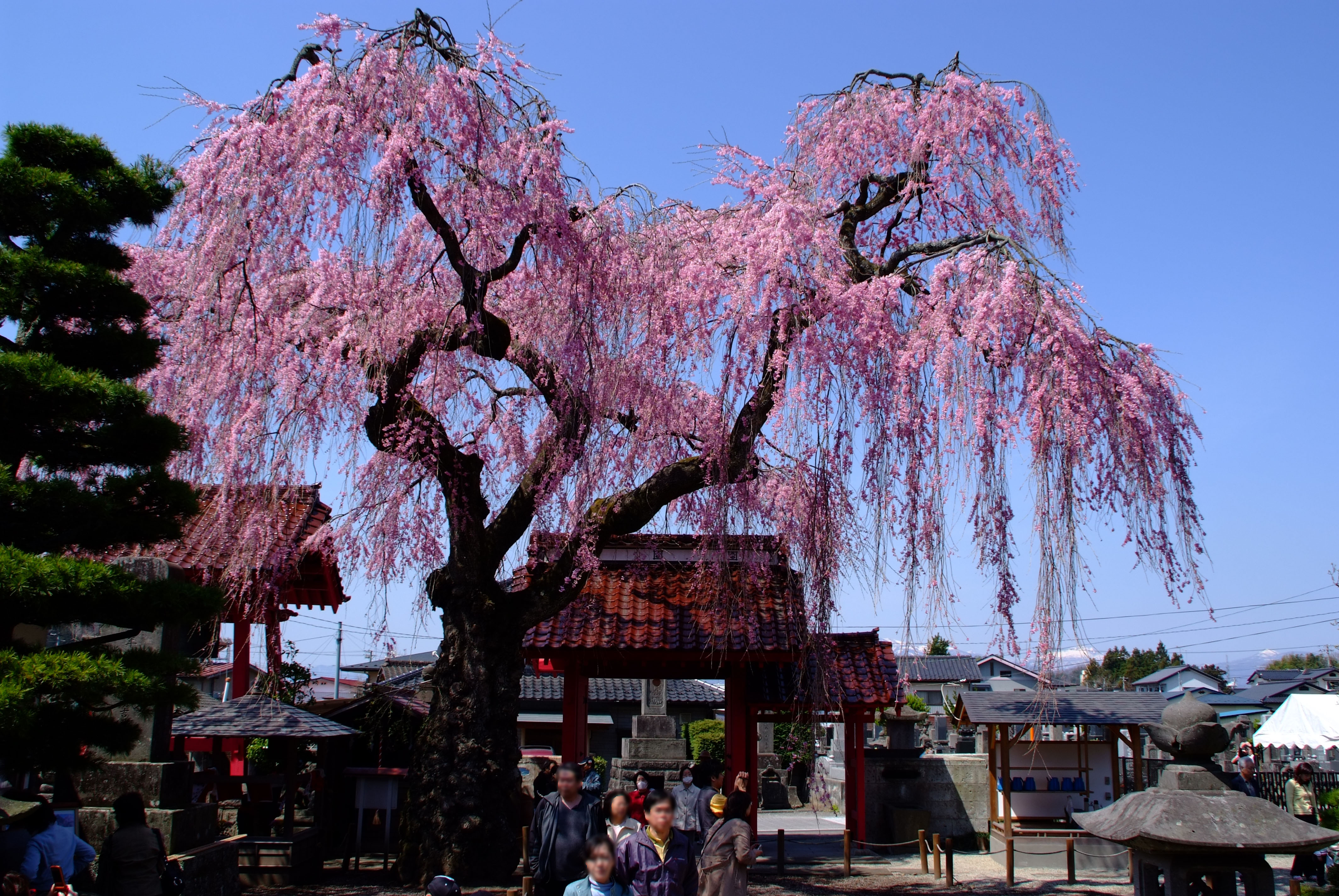 The Otohimezakura cherry in Myokanji temple in Shirakawa city, Fukushima prefecture, Japan